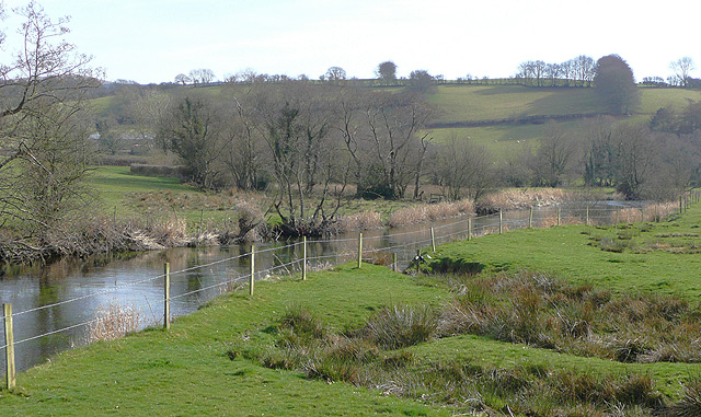 The Afon Teifi and Cefn Garth, Ceredigion Looking towards Cefn Garth. The farm buildings at Ochr Garth are on the left at the foot of the ridge. The Romans had a settlement here close by the river.